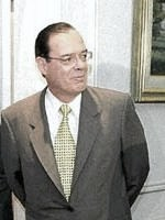 Argentine economist and central banker Roque Fernández.